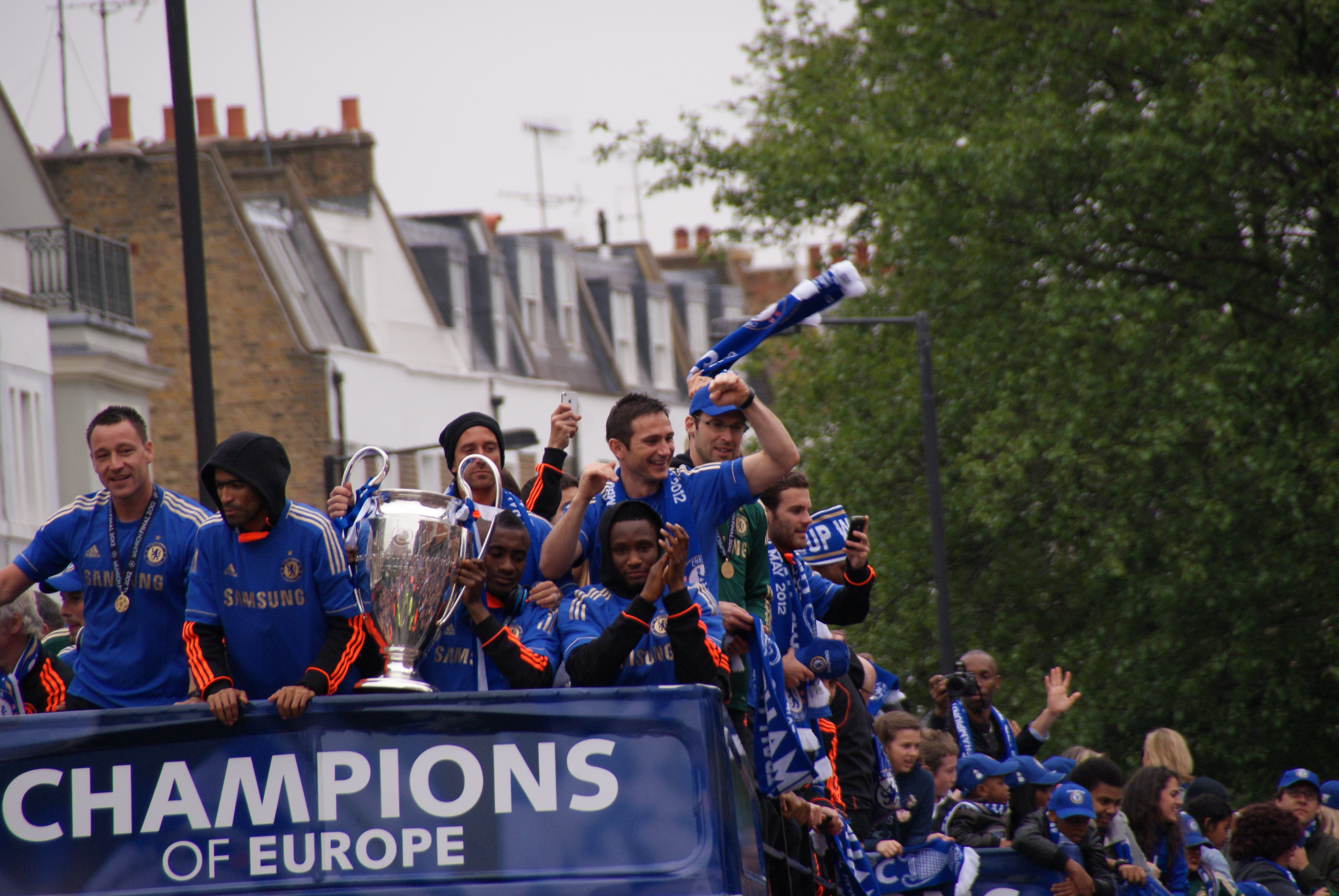 This photo was taken on Sunday 20th May 2012 during the Chelsea Football Club Parade following Chelsea's victory in the European Champions League Final.